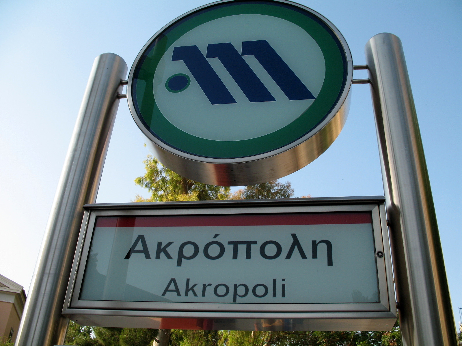 Acropolis Metro Station.